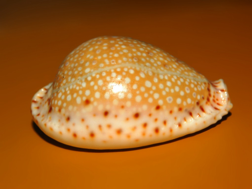 Naria lamarckii - Philippines